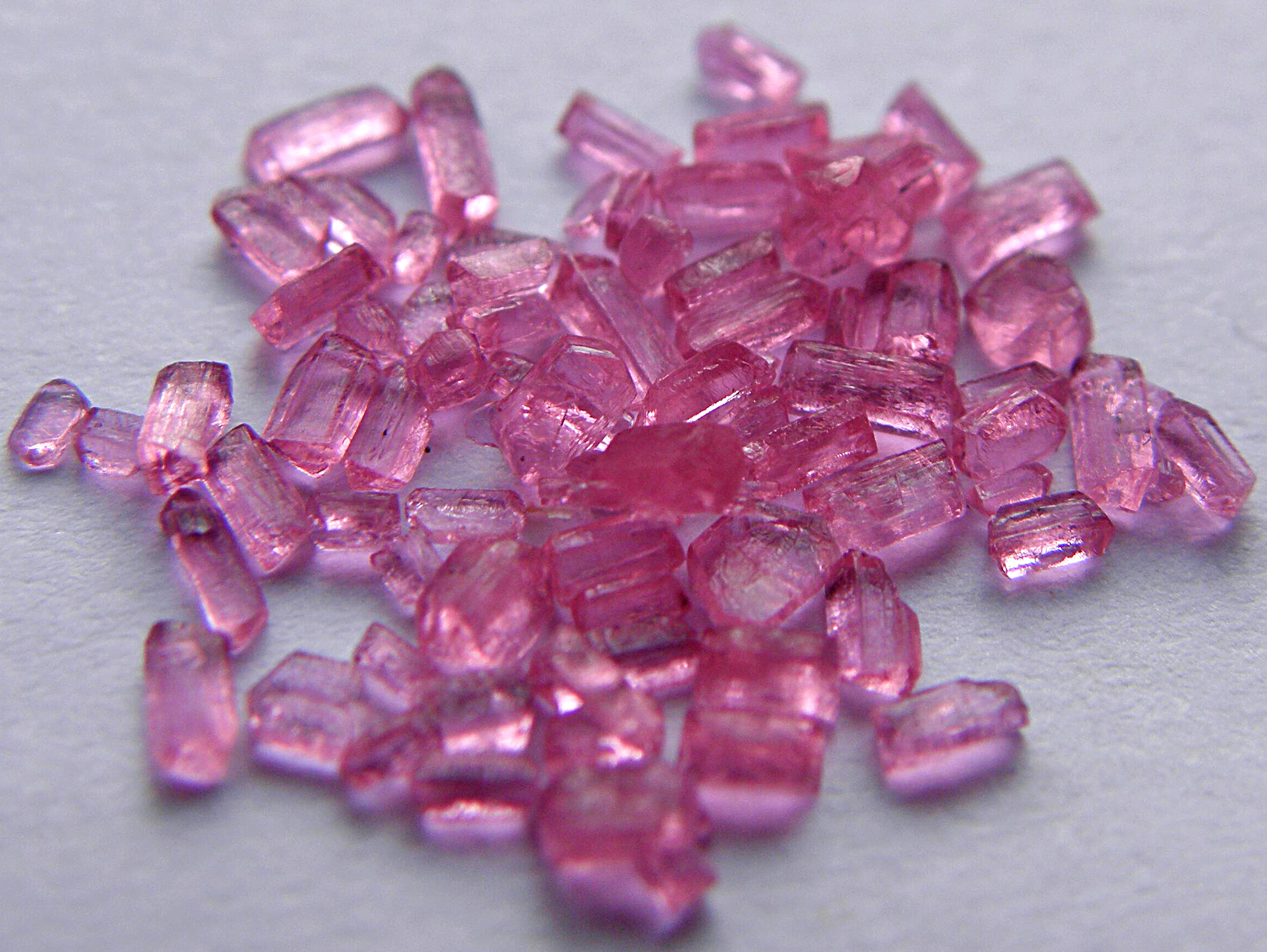 Crystals of neodym(III)sulfate octahydrate